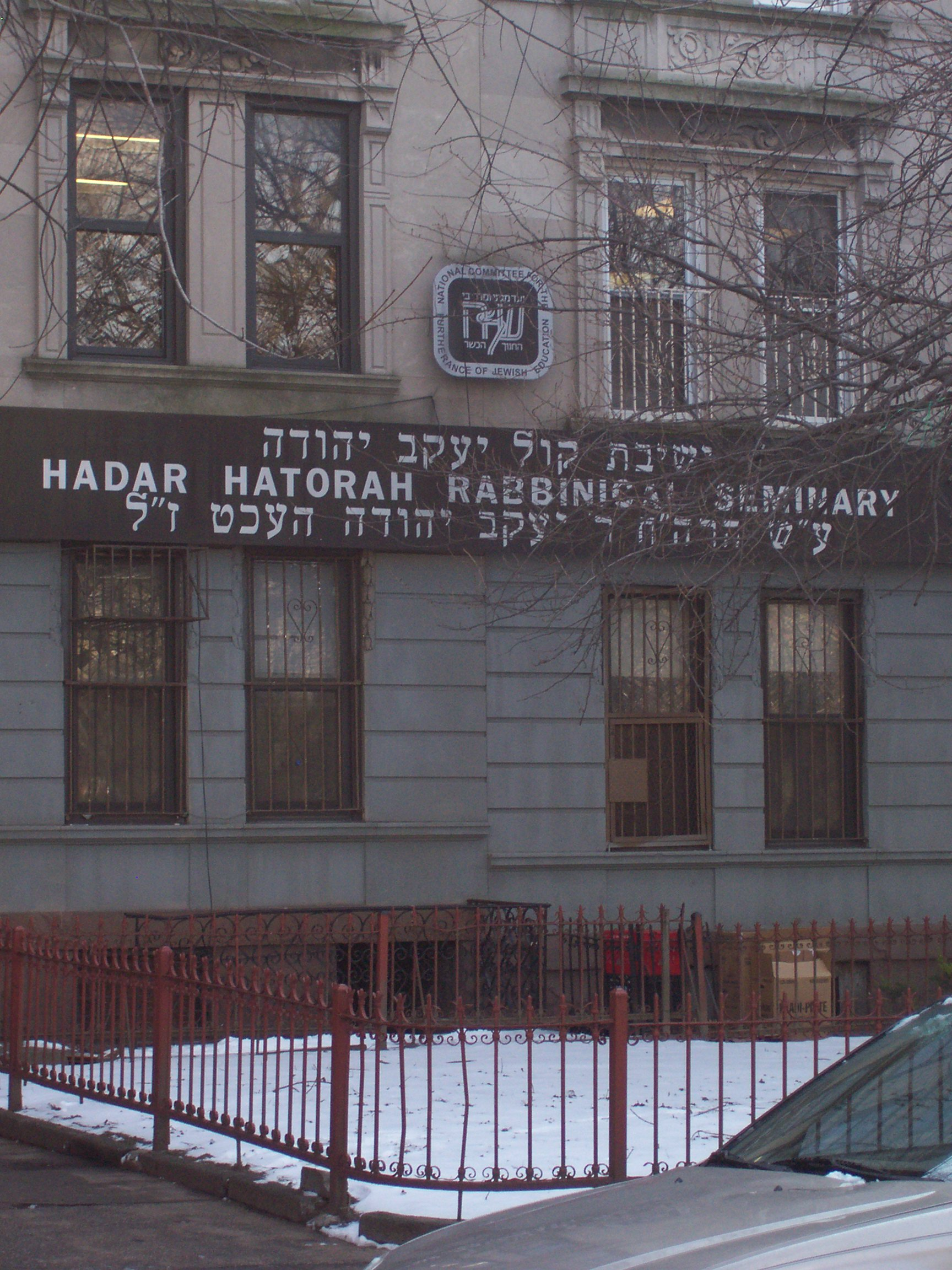 Yeshiva Hadar Hatorah, taken by User:Shlomke in February 2007.